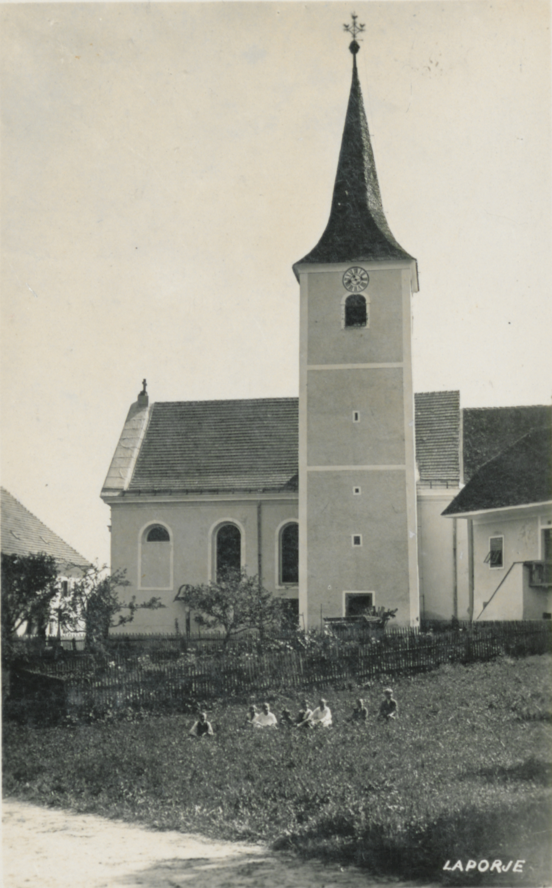 Postcard of Laporje